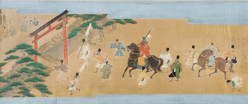 Ôdera picture scroll, detail